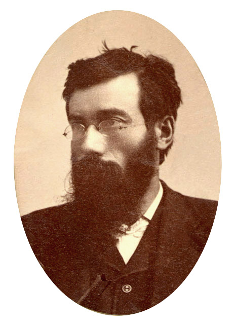 Portrait of Michael Schwab, one of the defendants who was charged with murder in the Haymarket Anarchists Trial, 1886.